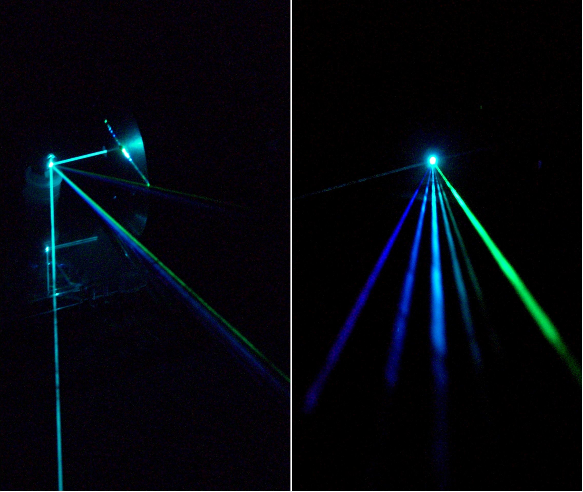 An argon laser beam consisting of multiple colors (wavelengths) strikes a silicon diffraction mirror grating and is separated into several beams, one for each wavelength. The wavelengths are (left to right) 458nm, 476nm, 488nm, 497nm, 502nm, 515nm.